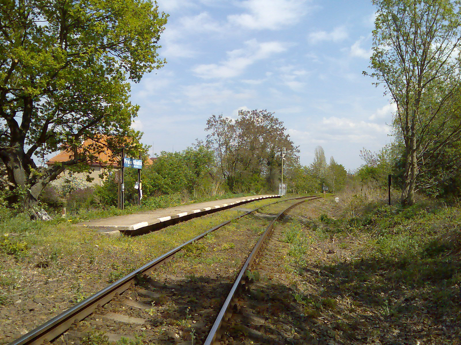 Railway Station Prague-Cibulka